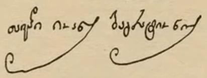 Signature of Ioane I, Prince of Mukhrani